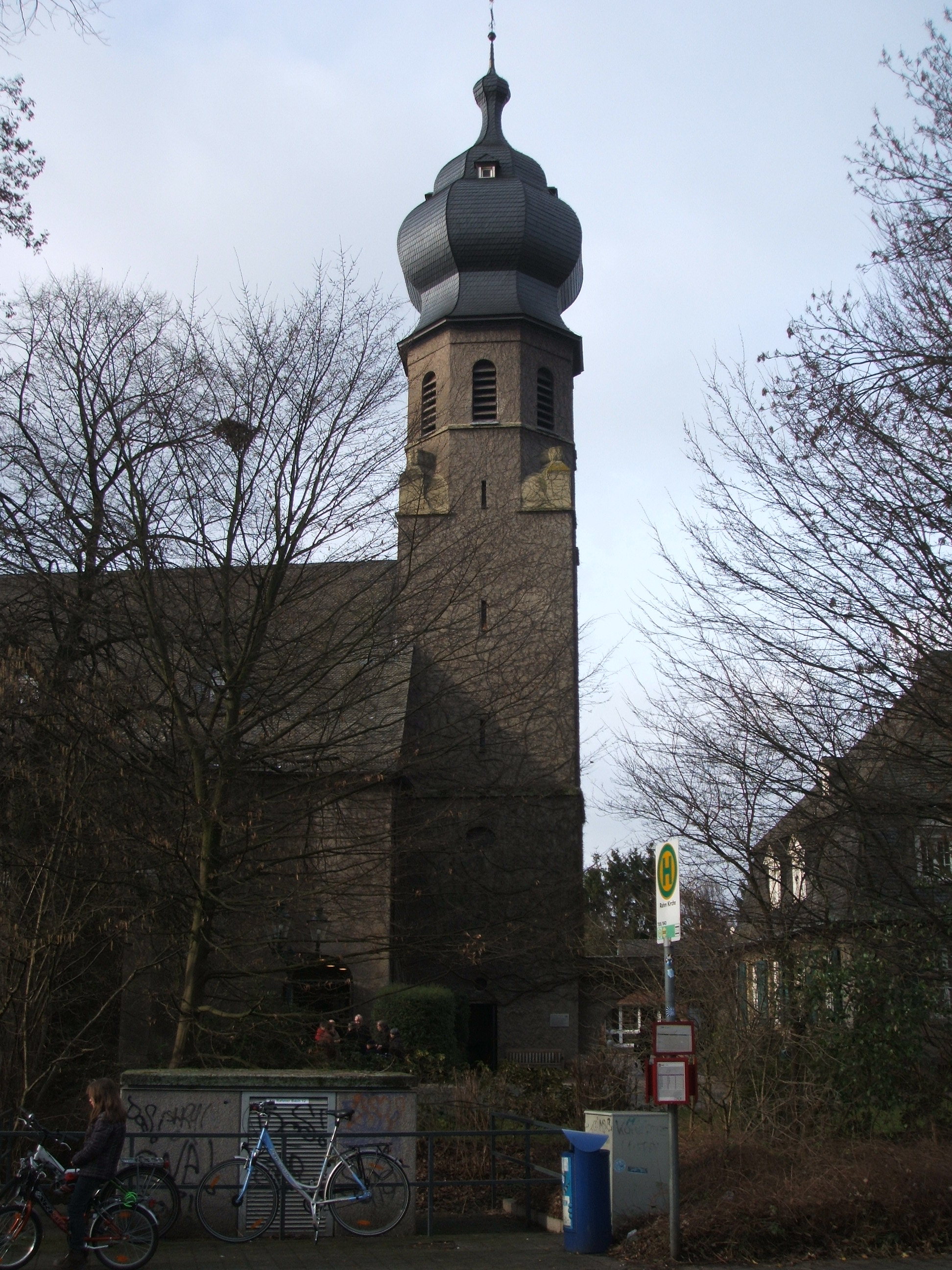 catholic Church Saint Hubertus at Duisburg-Rahm